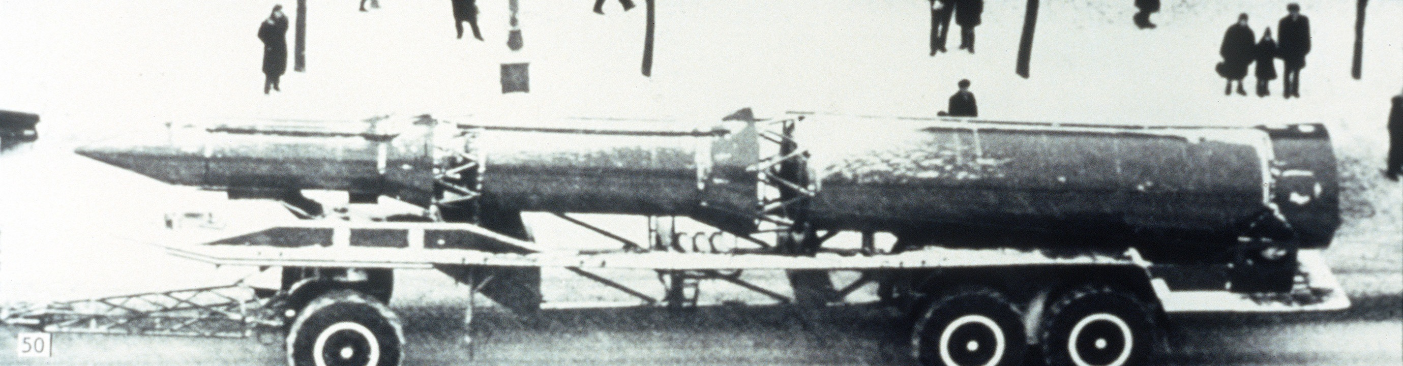 A view of a Soviet SS-13 intercontinental ballistic missile (ICBM). SS-13 Savage RS-12.